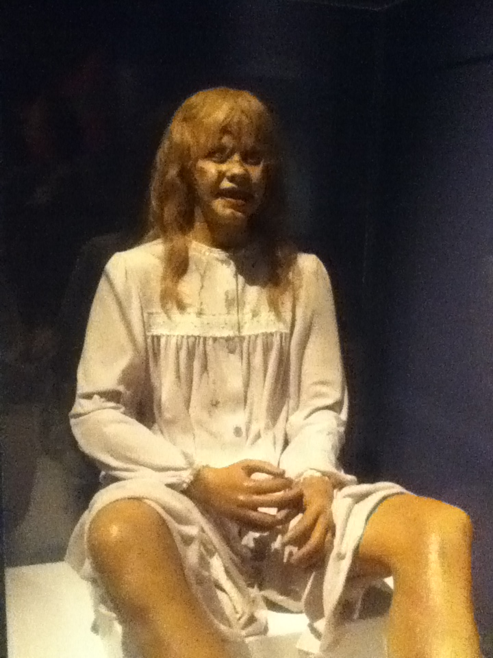 The puppet used in the 1970's classic The Exorcist